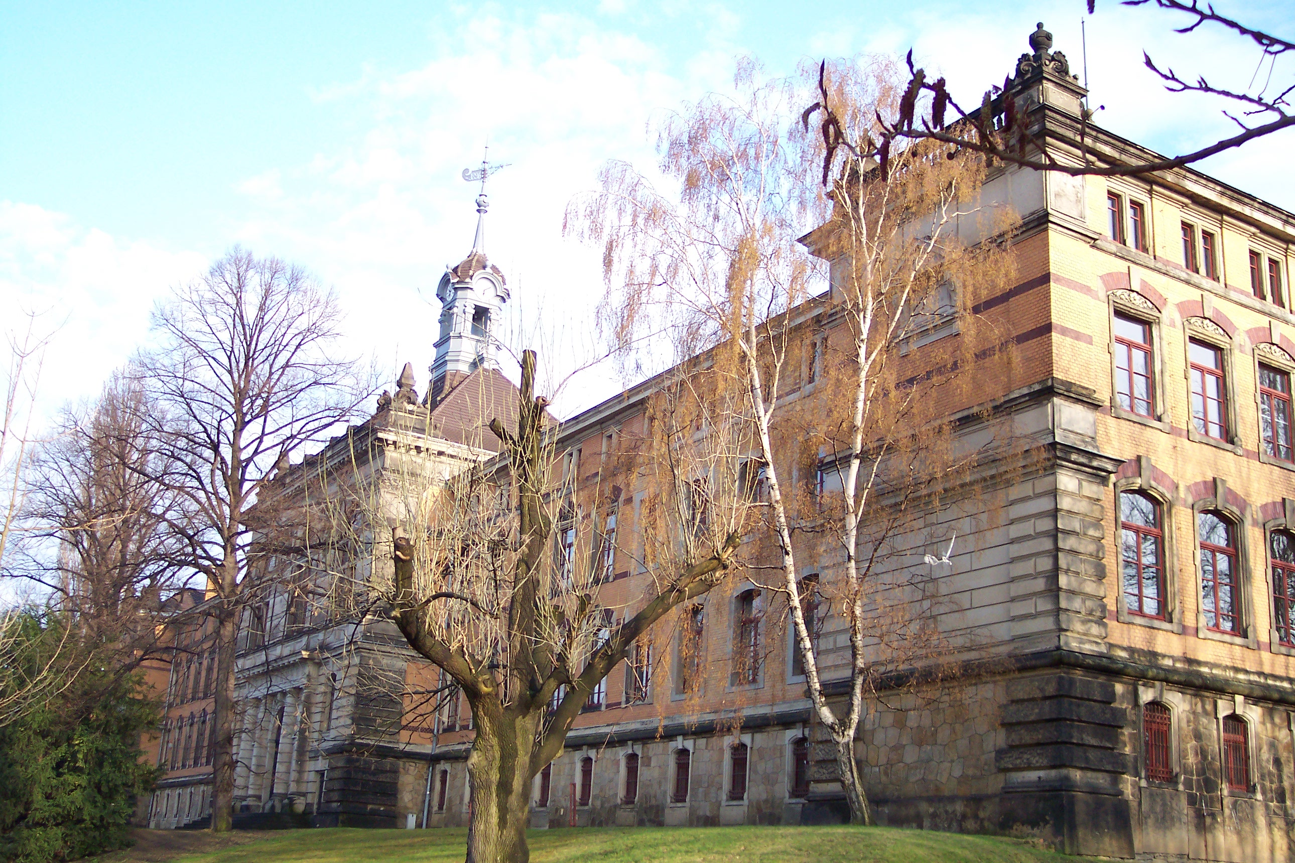 Main building of the Gymnasium Dresden-Plauen, a school for secondary education in the south of Dresden.